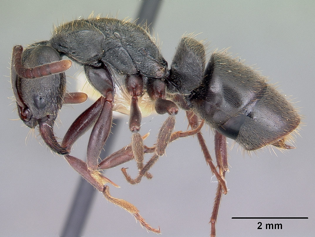 Profile view of ant Pachycondyla harpax specimen casent0104808.